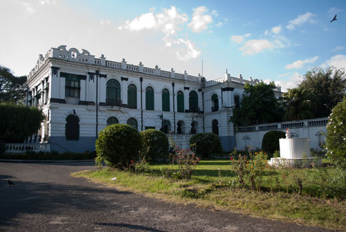 NIDC Development Bank Limited Main Building,Head Office,Durbar Marg Kathmandu,Nepal